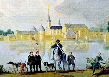 Painting of Hillerødsholm manor that was to become Frederiksborg Castle. In Gripsholm Castle, Sweden.